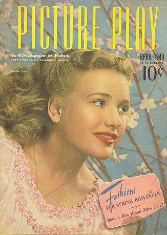 Priscilla Lane